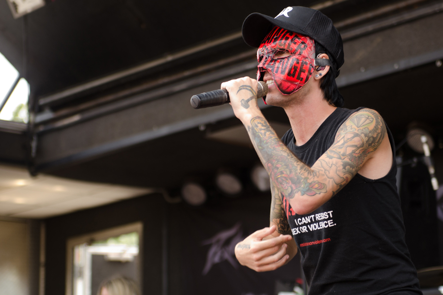 " and link the text to .